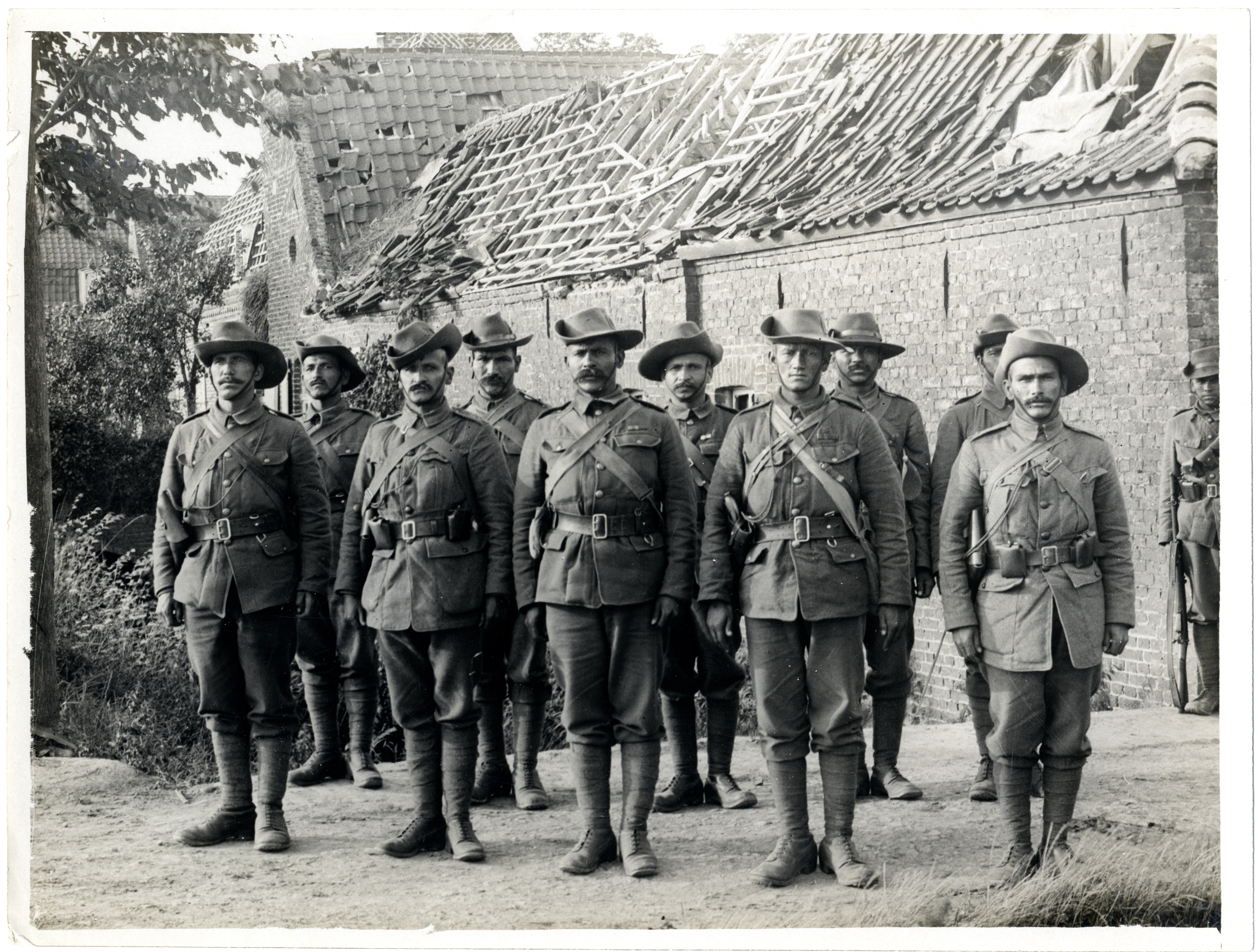 Reference: Photo 24/(242) From the Girdwood Collection held by the British Library. This image is part of the Europeana Collections 1914-1918 Date: 4 Aug 1915 See also: - View this at the British Library's site - Browse this collection on Europeana - and on Wikimedia Commons Please consider donating to the British Library.